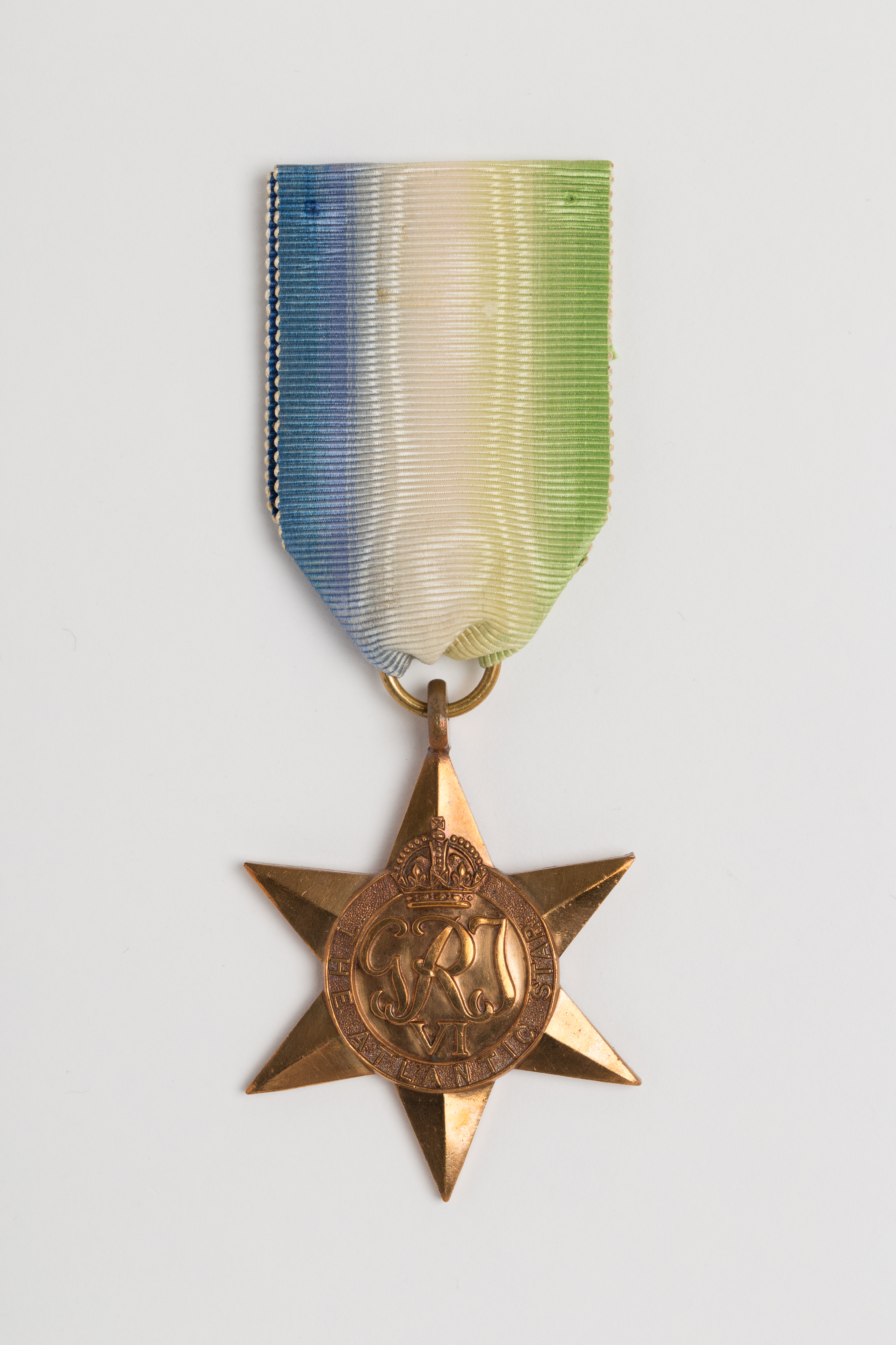 Atlantic Star, WW2 six pointed star with Royal cypher GRI with VI below, surmounted by an Imperial crown surrounded by a circlet bearing the title of the star- THE ATLANTIC STAR